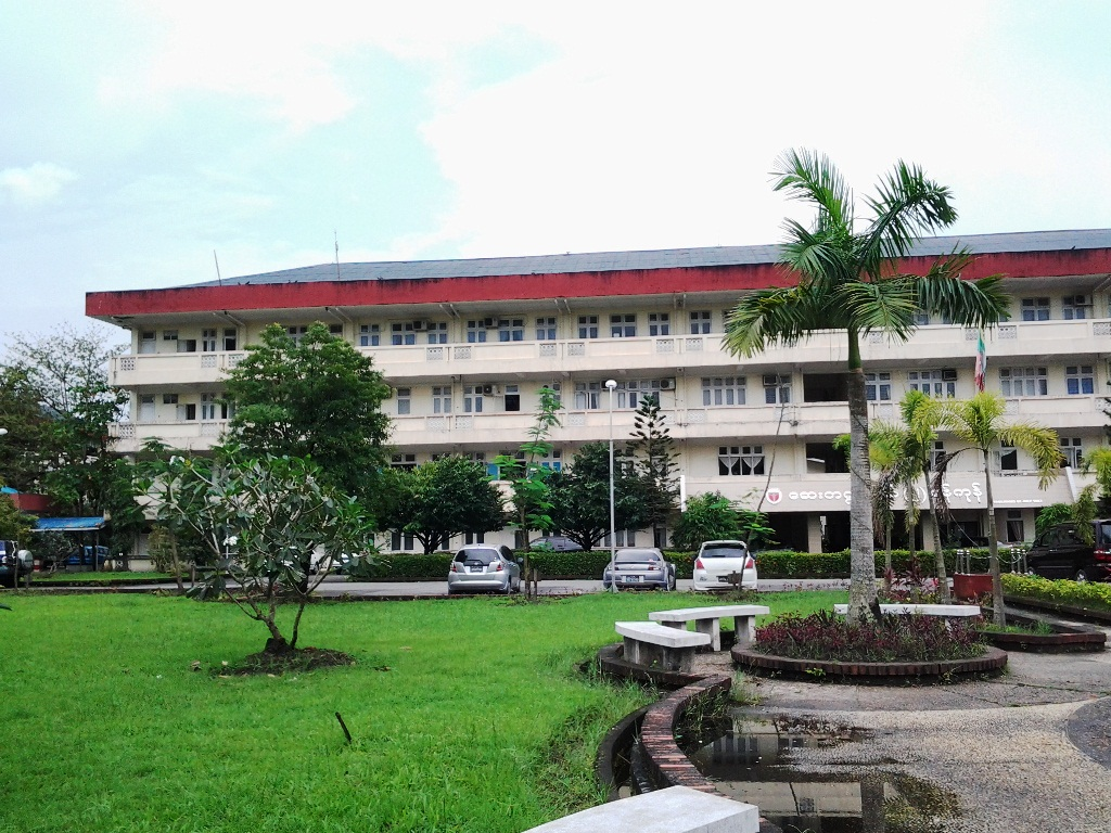 University of Medicine 2, Yangon, Burma